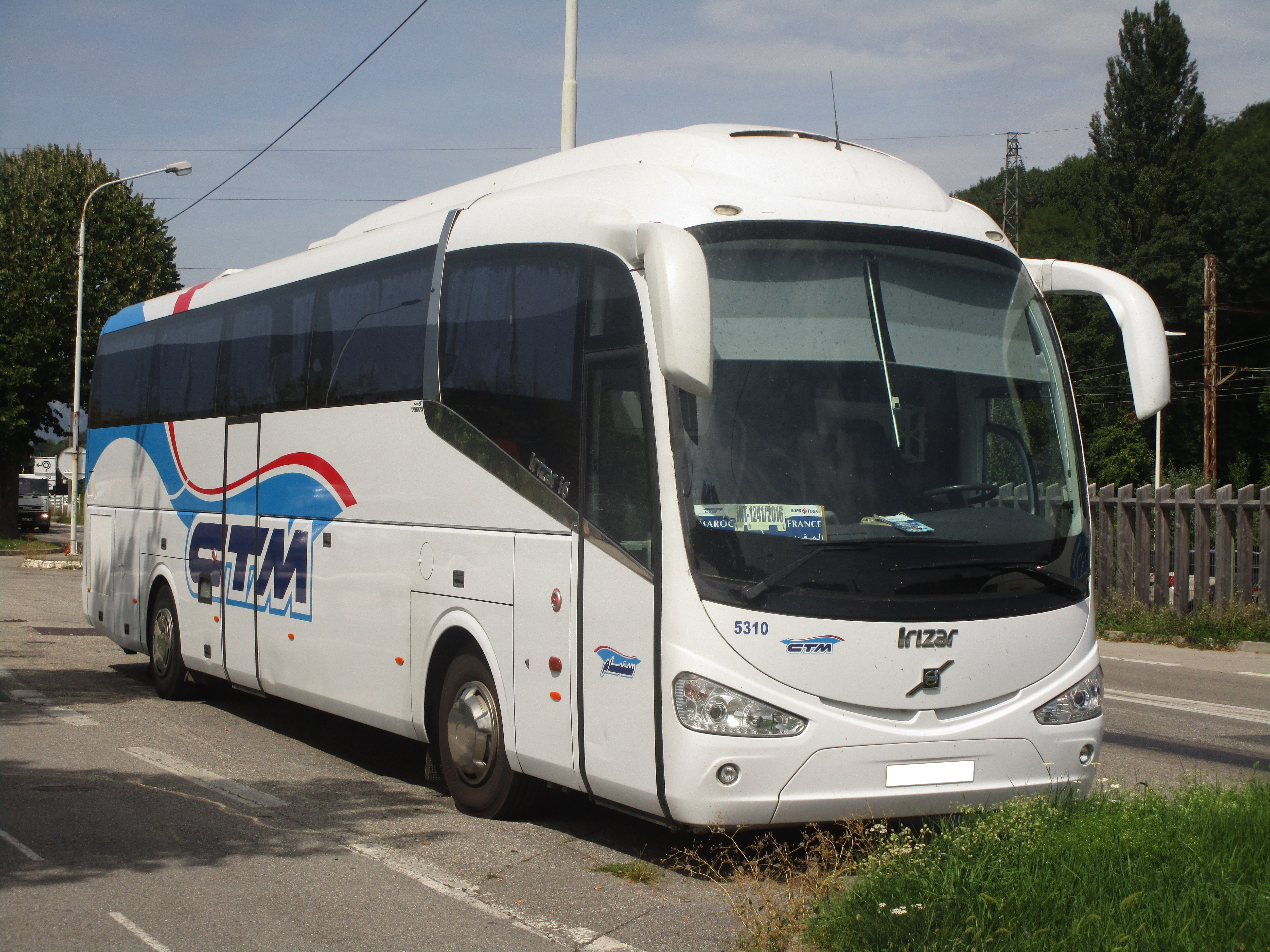 An Irizar i6 (n°5310 of the CTM) in Avenue des Landiers (Chambéry, France) on August 28, 2017.